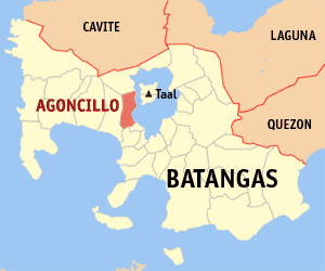 Map of Batangas showing the location of Agoncillo